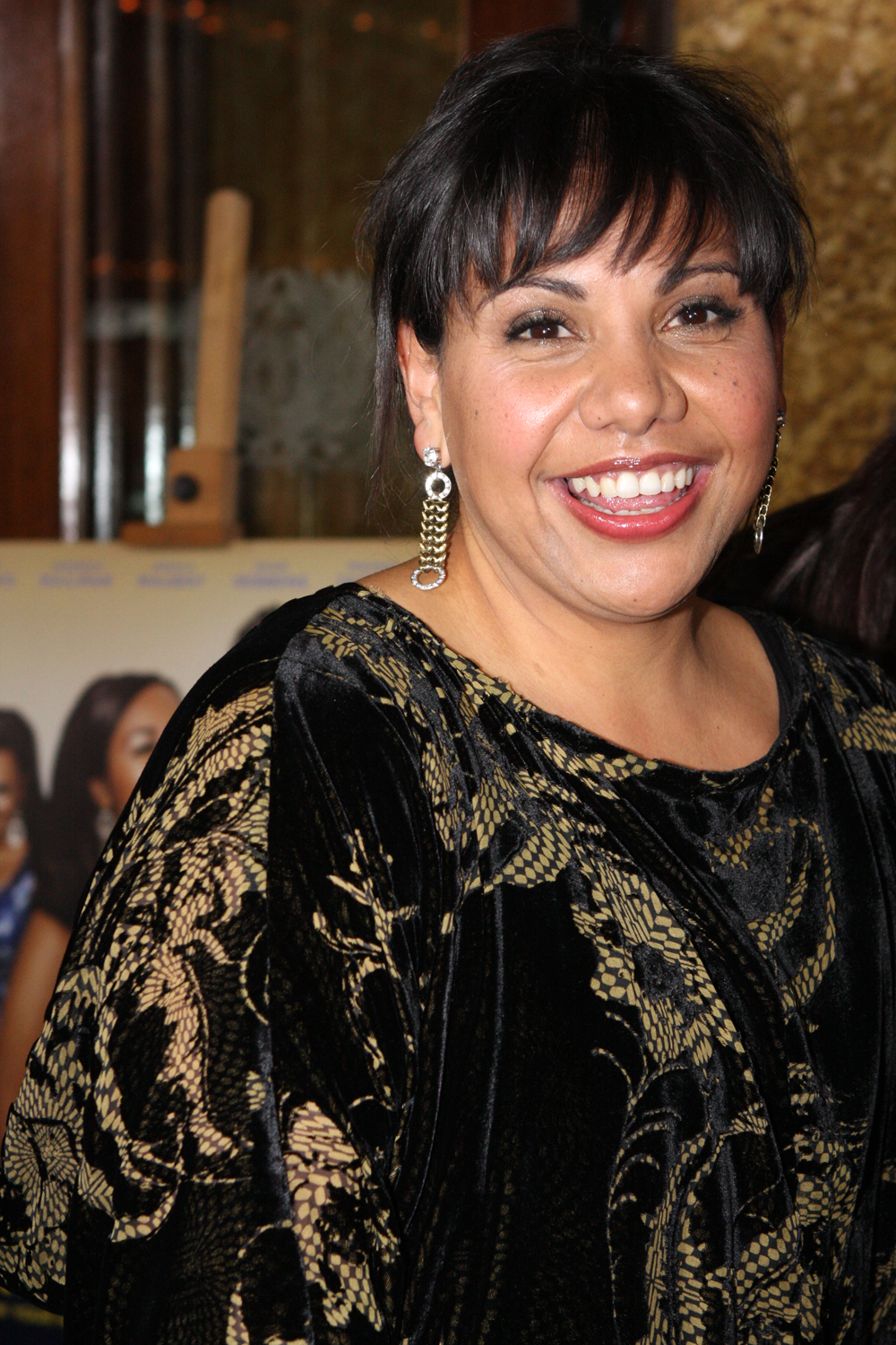 Deborah Mailman at the Australian premiere of The Sapphires at State Theatre in Sydney, Australia.